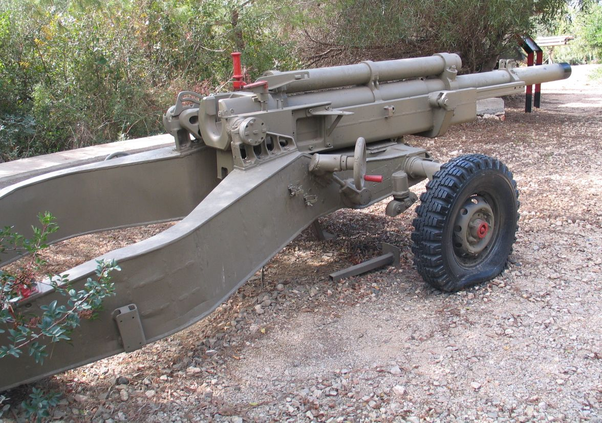 Description: US M102 105 mm howitzer in Beyt ha-Totchan, Zichron Yaakov, Israel. 2005. Source: Photo by me, User:Bukvoed.